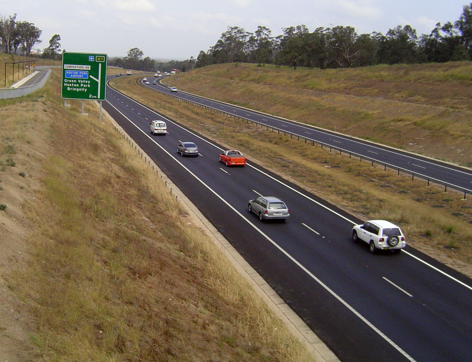 Westlink M7 motorway, looking southbound near Cowpasture Road exit